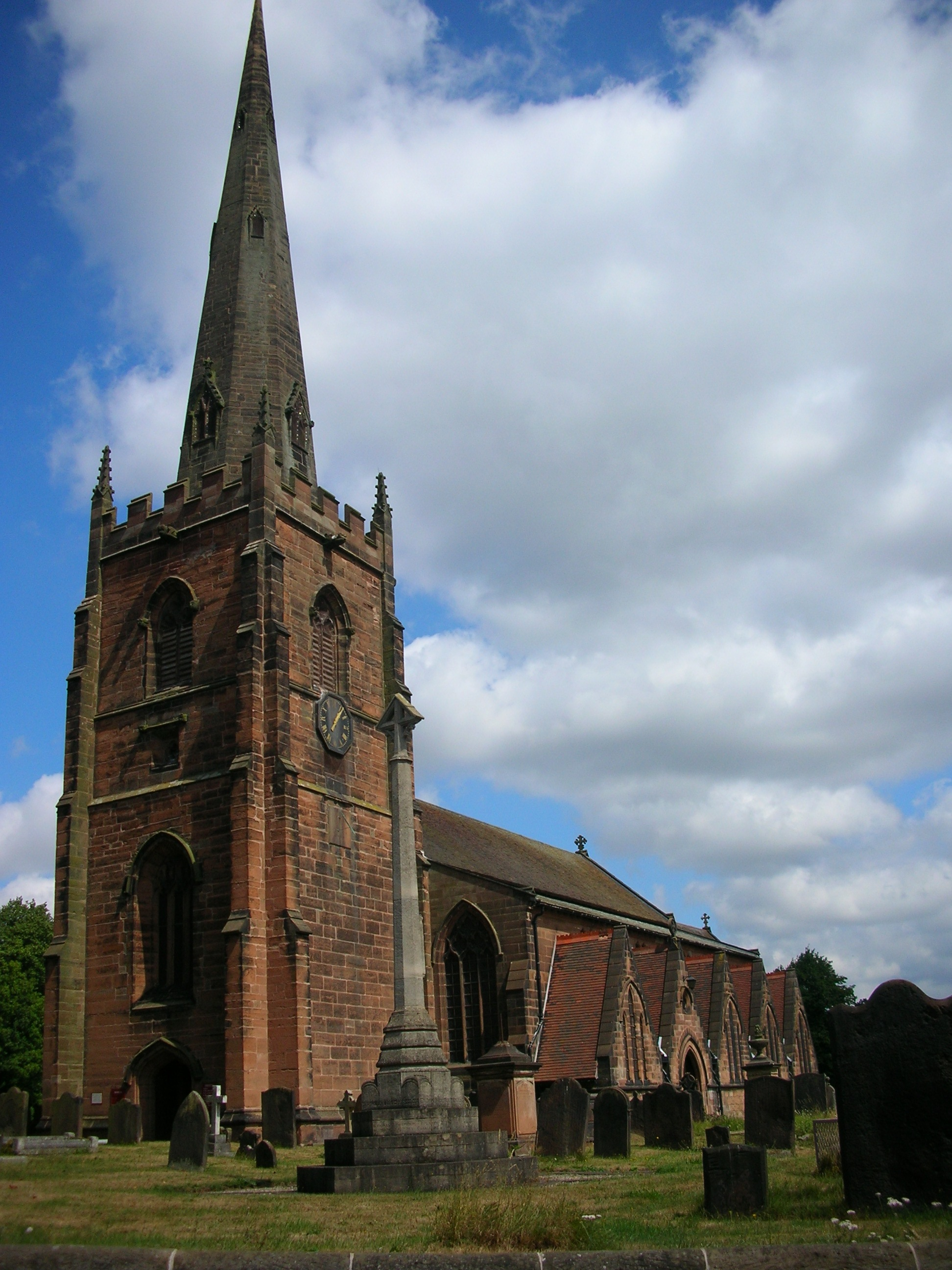 Church of England church of St Mary & St Chad, Brewood, Staffordshire, England. listed. Photographed by me, 8 August 2006.